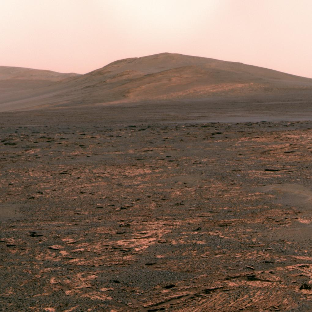 NASA's Mars Exploration Rover Opportunity used its panoramic camera (Pancam) to acquire this view of "Solander Point" during the mission's 3,325th Martian day, or sol (June 1, 2013). The southward-looking scene, presented in true color, shows Solander Point on the center horizon, "Botany Bay" in the foreground, and "Cape Tribulation" in the far background at left. Botany Bay is a topographic saddle exposing sedimentary rocks that are part of the Burns formation, a geological unit Opportunity examined during earlier years of the mission. At Botany Bay, the Burns formation is exposed between isolated remnants of Endeavour Crater's rim. Solander Point and Cape Tribulation are rim segments south of Botany Bay. Opportunity is on the way to Solander Point to spend the upcoming winter season on northerly tilted surfaces. Extensive rock strata are evident on the northern side of Solander Point, and these ancient rocks and surrounding bench materials will be investigated in detail by Opportunity as part of the winter science campaign. The false-color versions make some differences among geological materials easier to distinguish; these images combine three exposures taken through Pancam filters centered at wavelengths of 753 nanometers, 535 nanometers and 432 nanometers, displayed as red, green and blue colors.